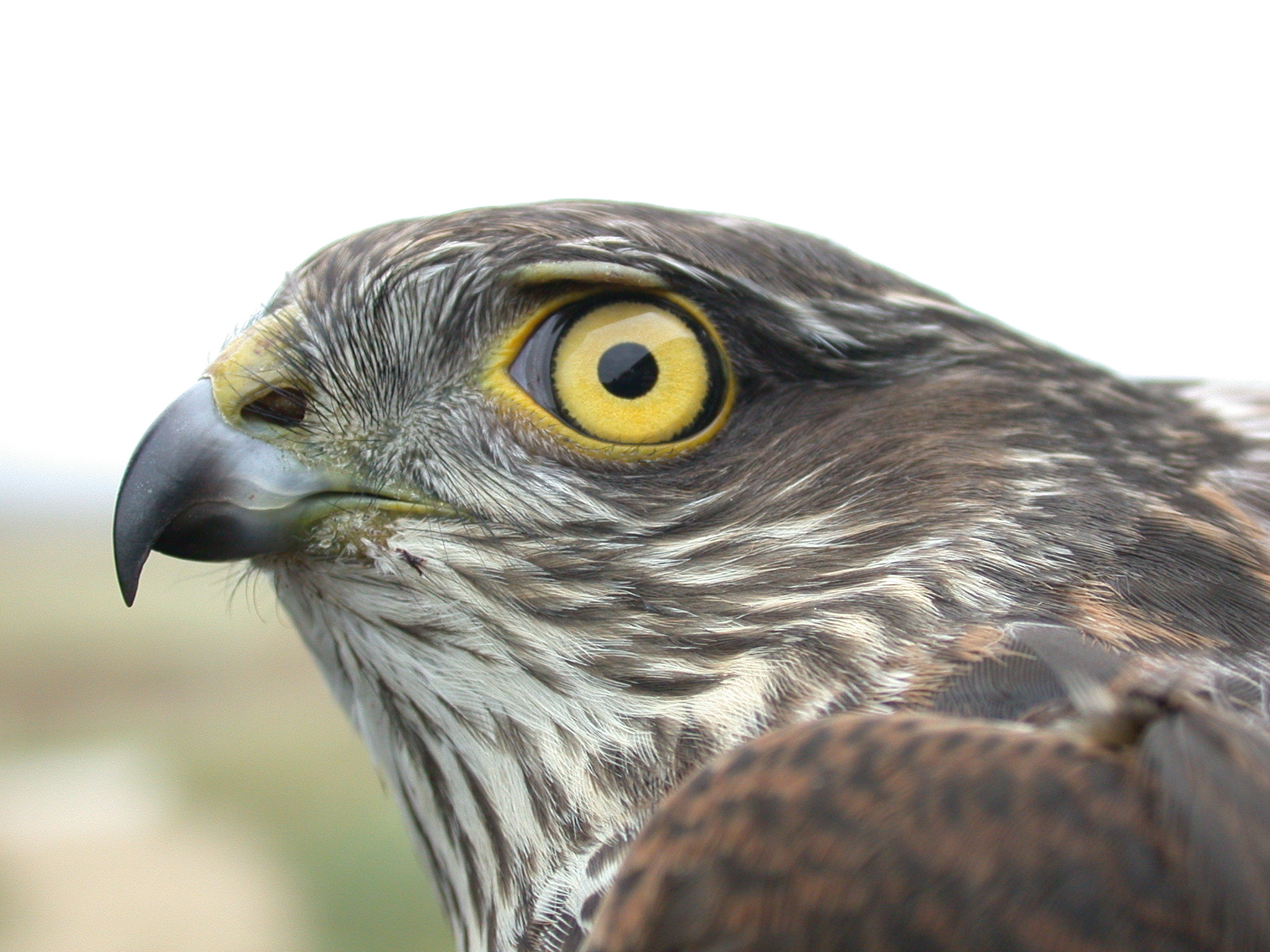 Juvenile male Eurasian Sparrowhawk, Accipiter nisus, caught for ringing at Gibraltar Point Bird Observatory, Lincolnshire, England